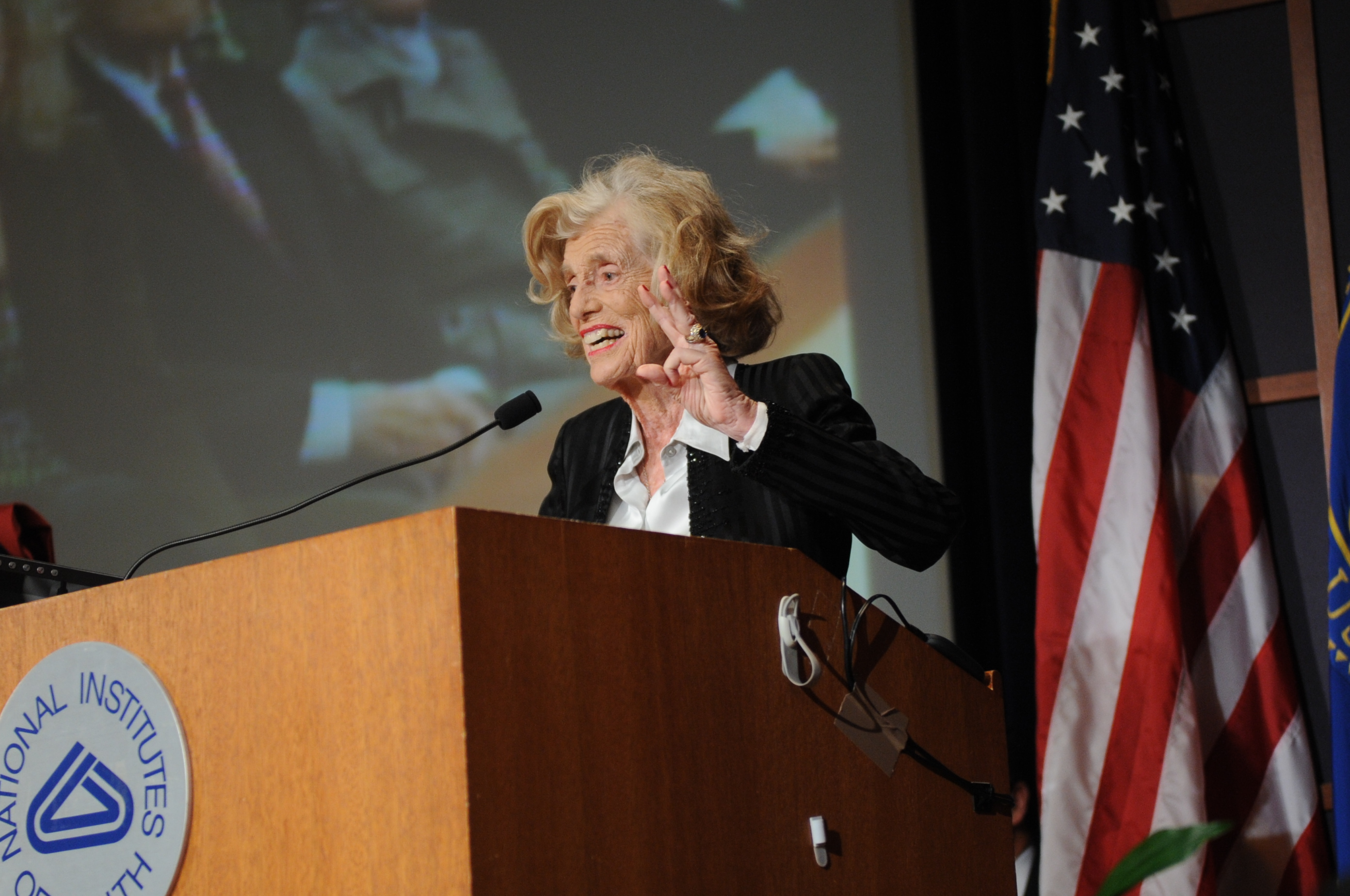 Eunice Kennedy Shriver, a longtime advocate for children's health and disability issues, was a key founder of the National Institute of Child Health and Human Development (NICHD).